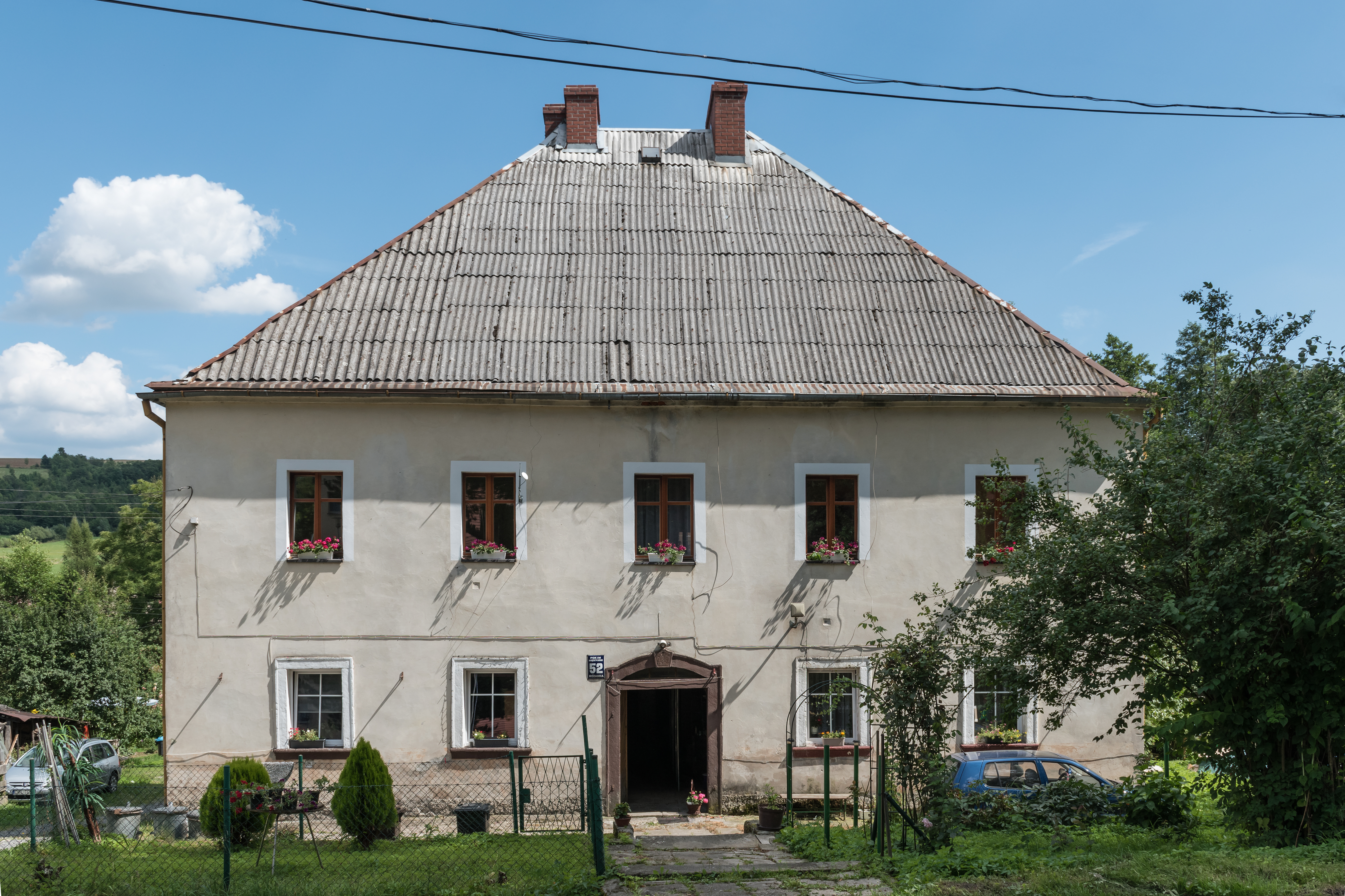 House number 52 in Różanka Wikidata has entry Q30049137 with data related to this item.